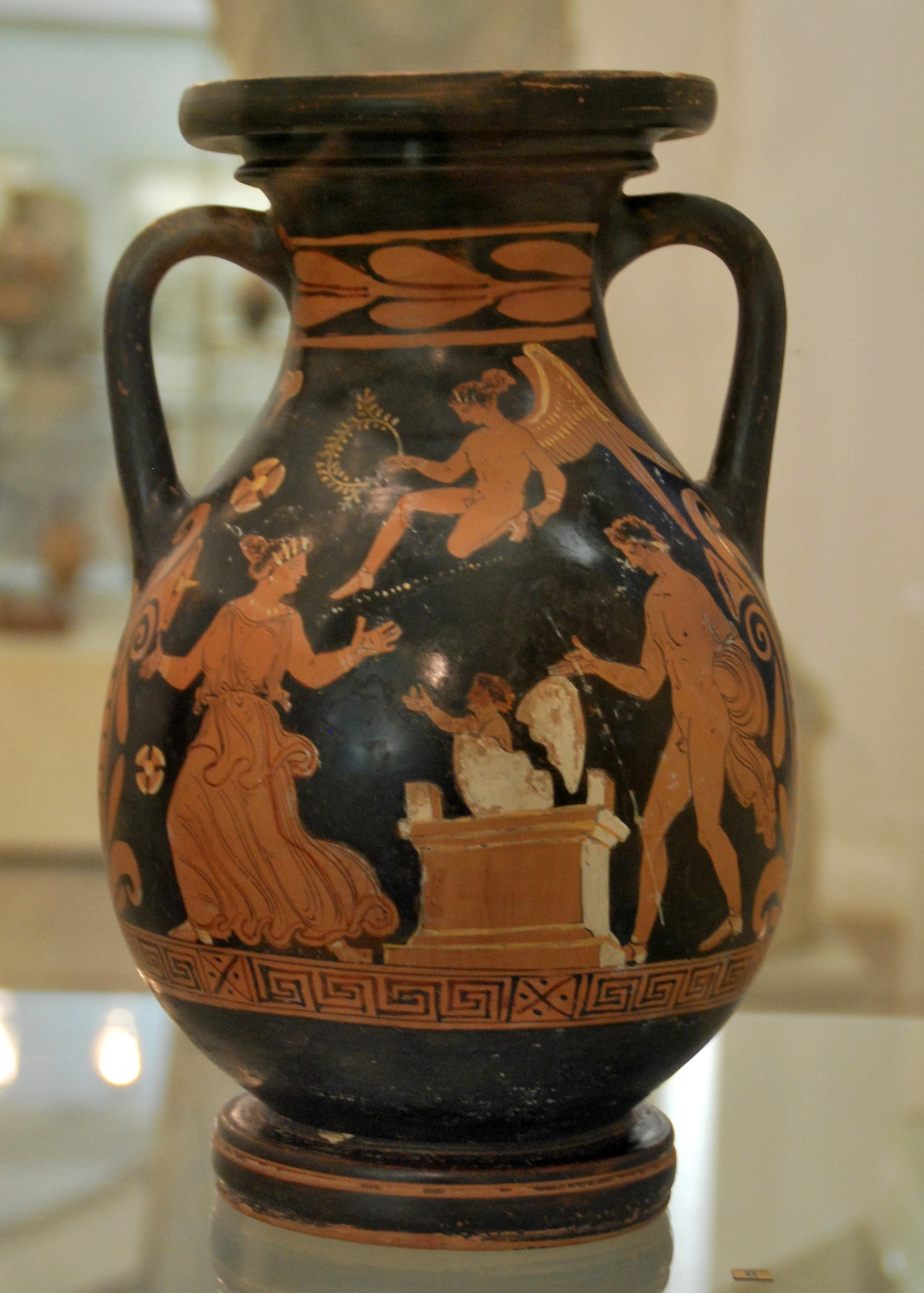 Apulian red-figure Pelike with the birth of Helen out of an egg, left site Helen's mother Leda, reight site a shepherd with stick, above Eros with a wreath; clay, h. 32,7 cm; ca. 360/50 BC; Antikensammlung Kiel, inventory number B 501.